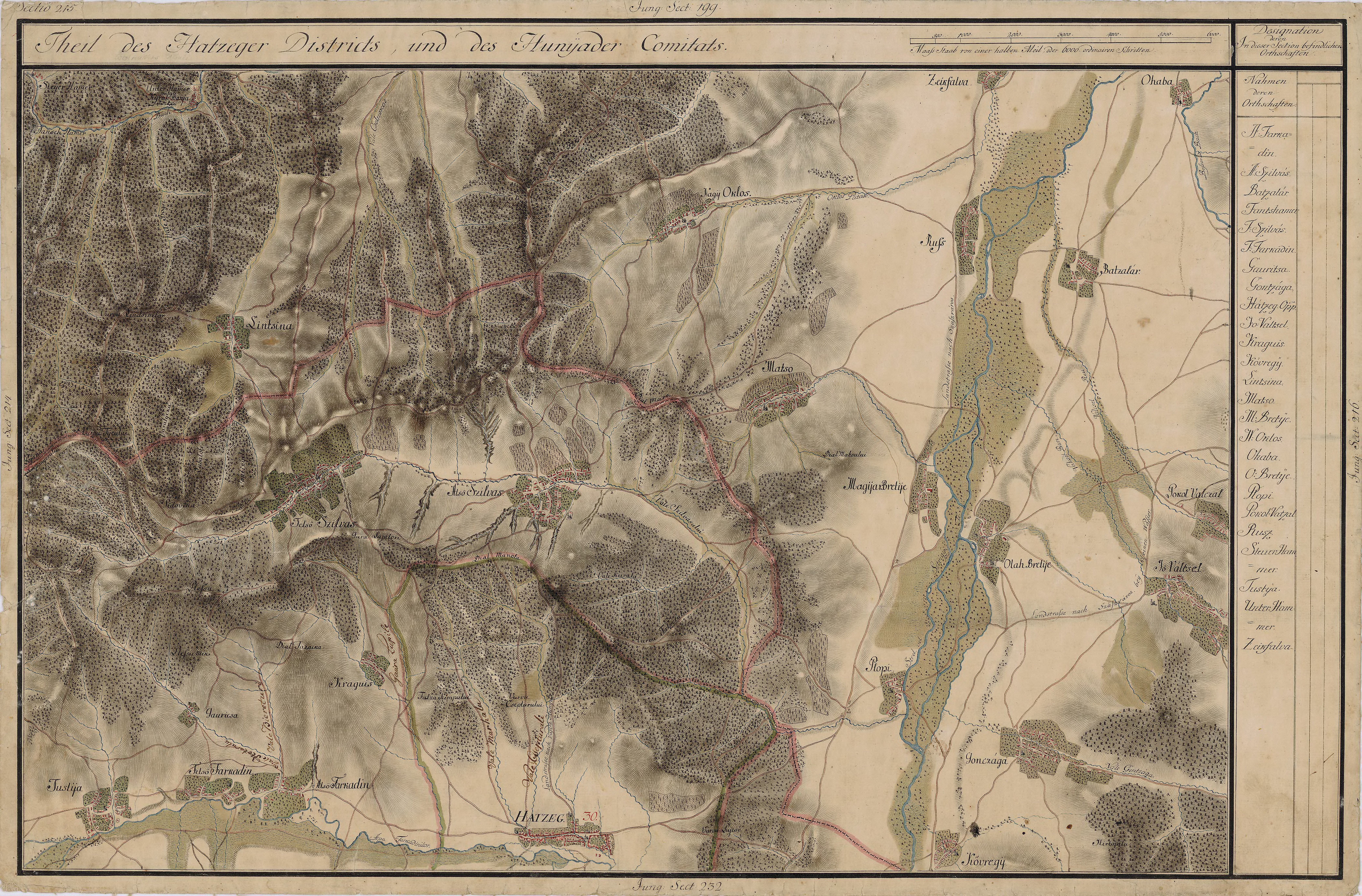 Grand Duchy of Transylvania, 1769-1773. Josephinische Landaufnahme pg.215